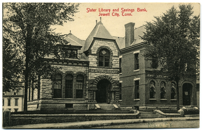 Postcard of Slater Library and a bank, postmarked 1908